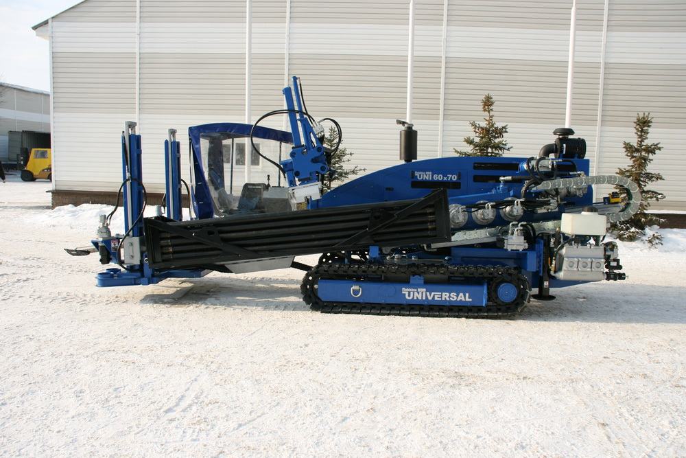 this picture was made by myself